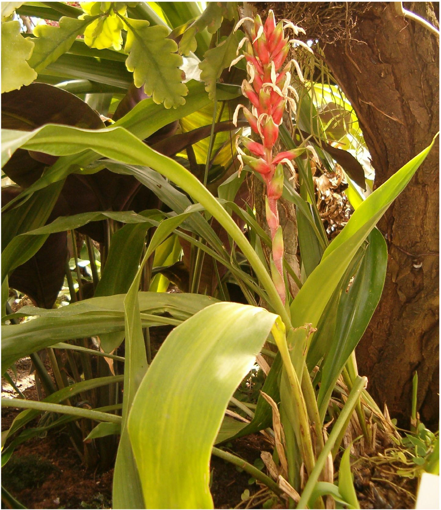 Name Pitcairnia maidifolia Genus Pitcairnia Subfamilia Pitcairnioideae Familia Bromeliaceae Inflorescence Location Berlin Botanical Gardens Berlin-Dahlem